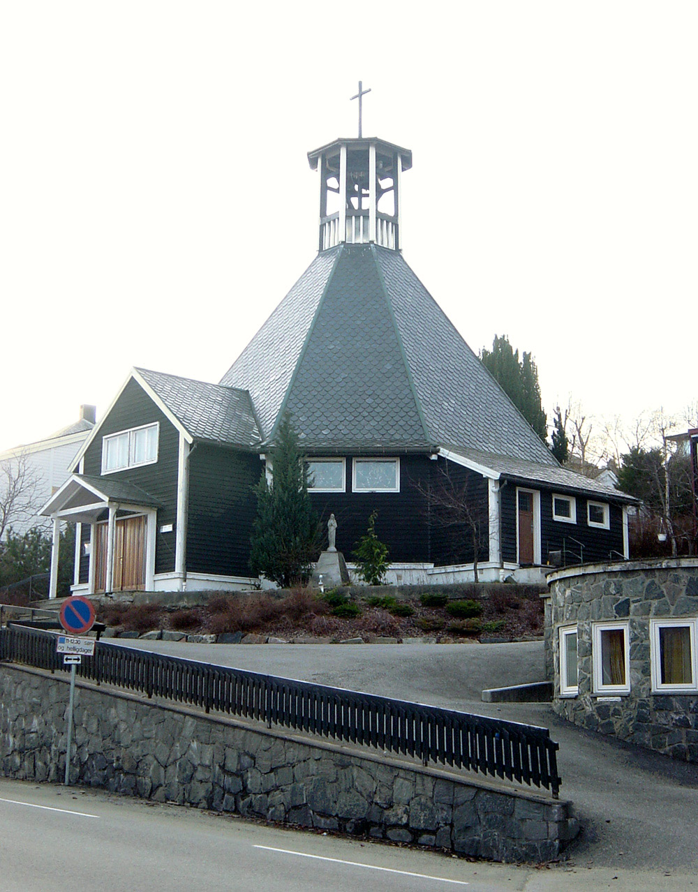 Molde and the catholic churche Sta. Sunniva menighet, Molde.